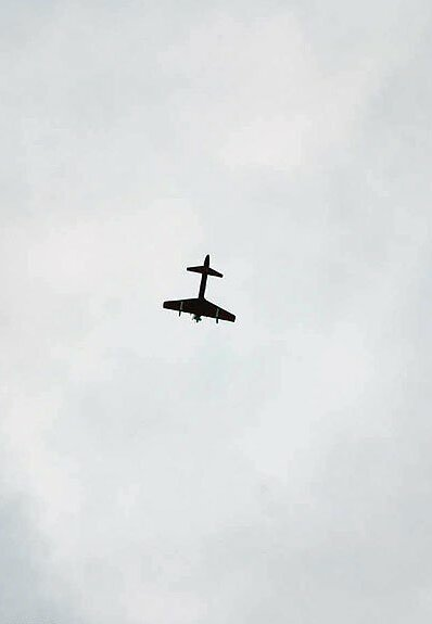 Ababil-2 UAV seen from below